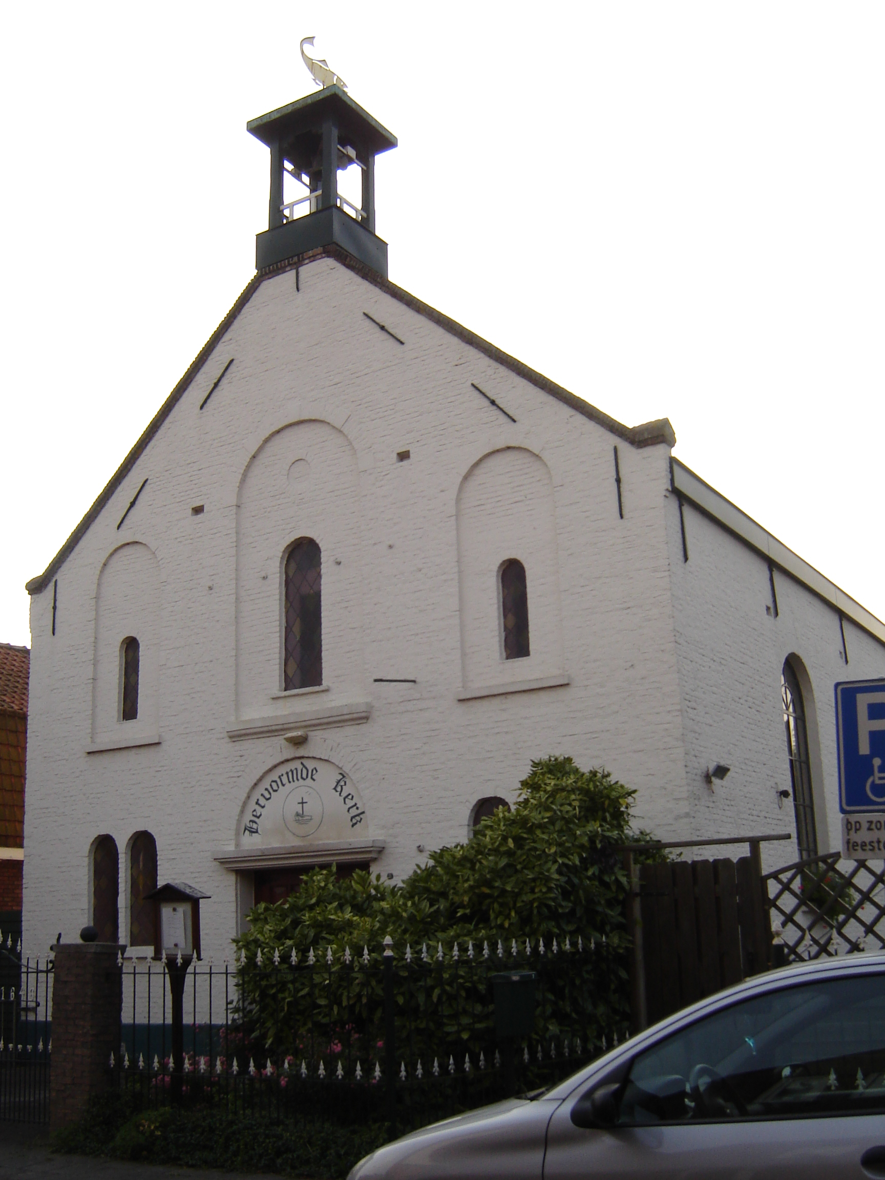 Reformed Church in Philippine. Philippine, Terneuzen, Zeeland, Netherlands